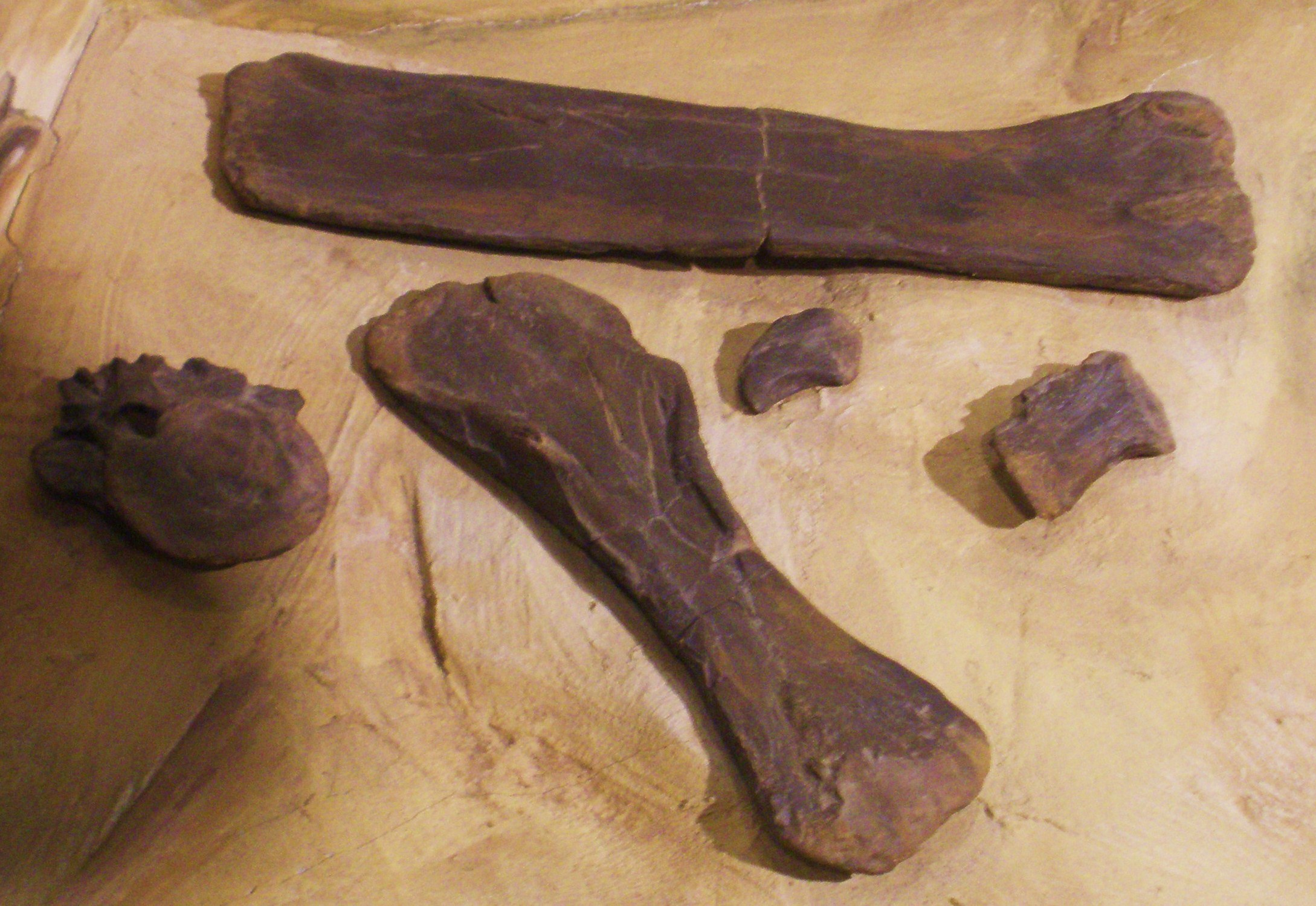 Fossils of Amanzia greppini (formerly Cetiosauruscus).